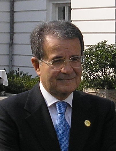 Italian Prime Minister Romano Prodi at the G8 summit in Heiligendamm. Cropped detail.